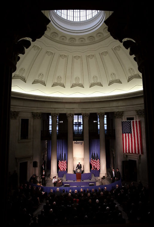 US President George W. Bush delivers remarks on the economy on Wall Street in New York City Wednesday, Jan. 31, 2007. "When people across the world look at America's economy what they see is low inflation, low unemployment, and the fastest growth of any major industrialized nation," said the President. "The entrepreneurial spirit is alive and well in the United States."